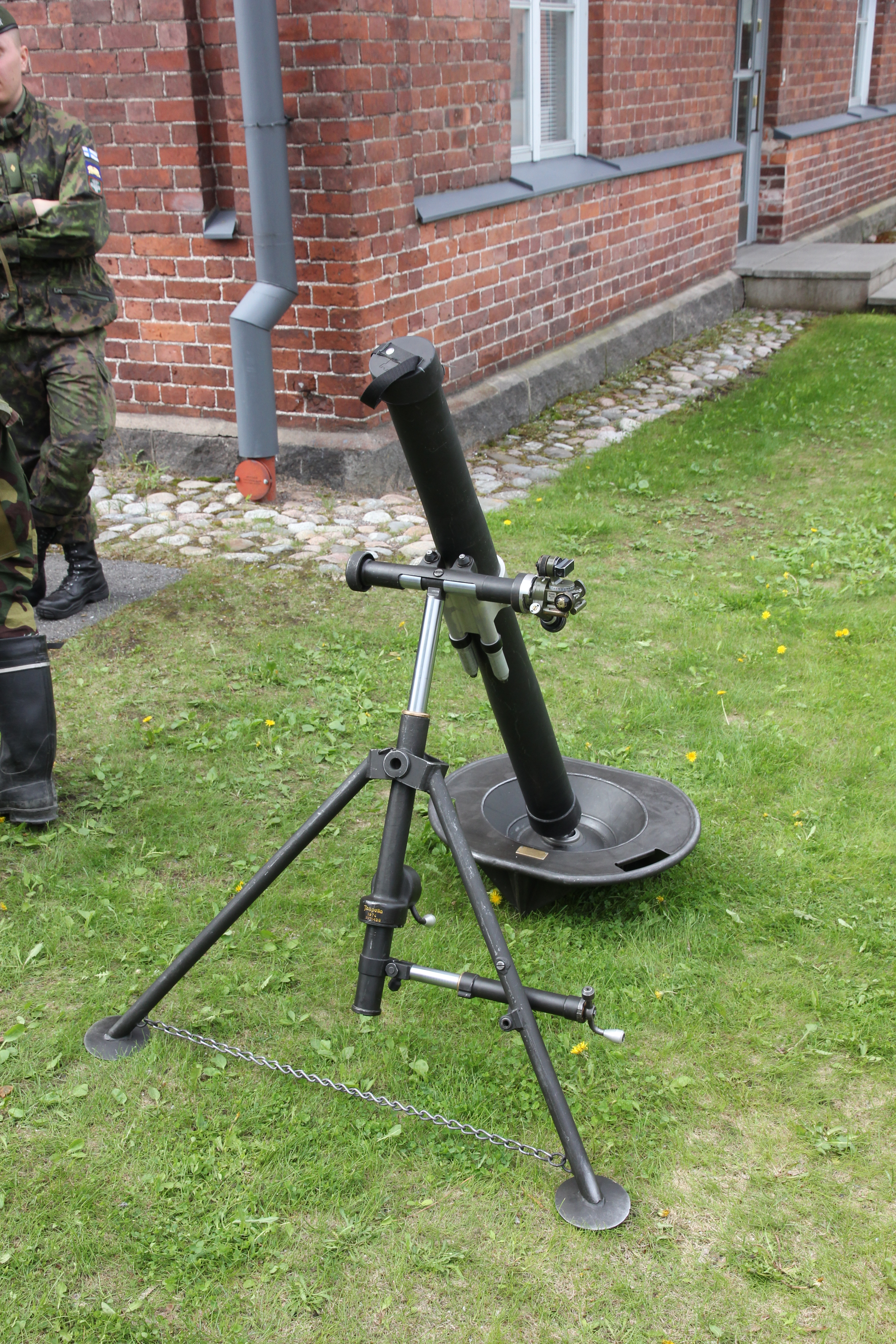 81 Krh 71-96 Y light mortar on display during Finnish Defence Forces 2014 Flag day in Lappeenranta Rakuunanmäki.